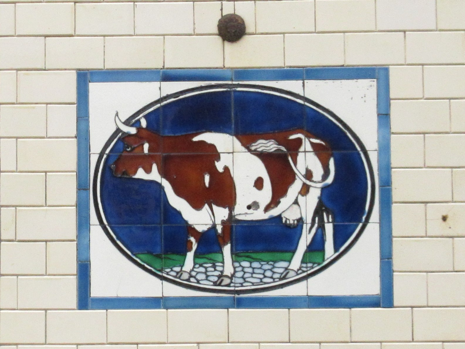 classensgade 38 in Copenhagen, Denmark